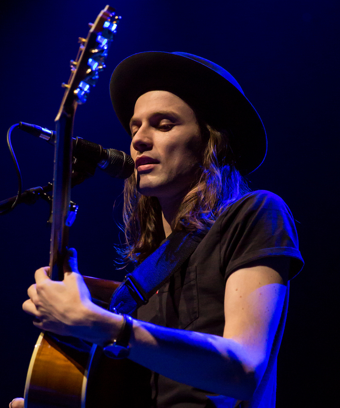 James Bay performing at ACL Live in Austin, Texas on December 17, 2015.